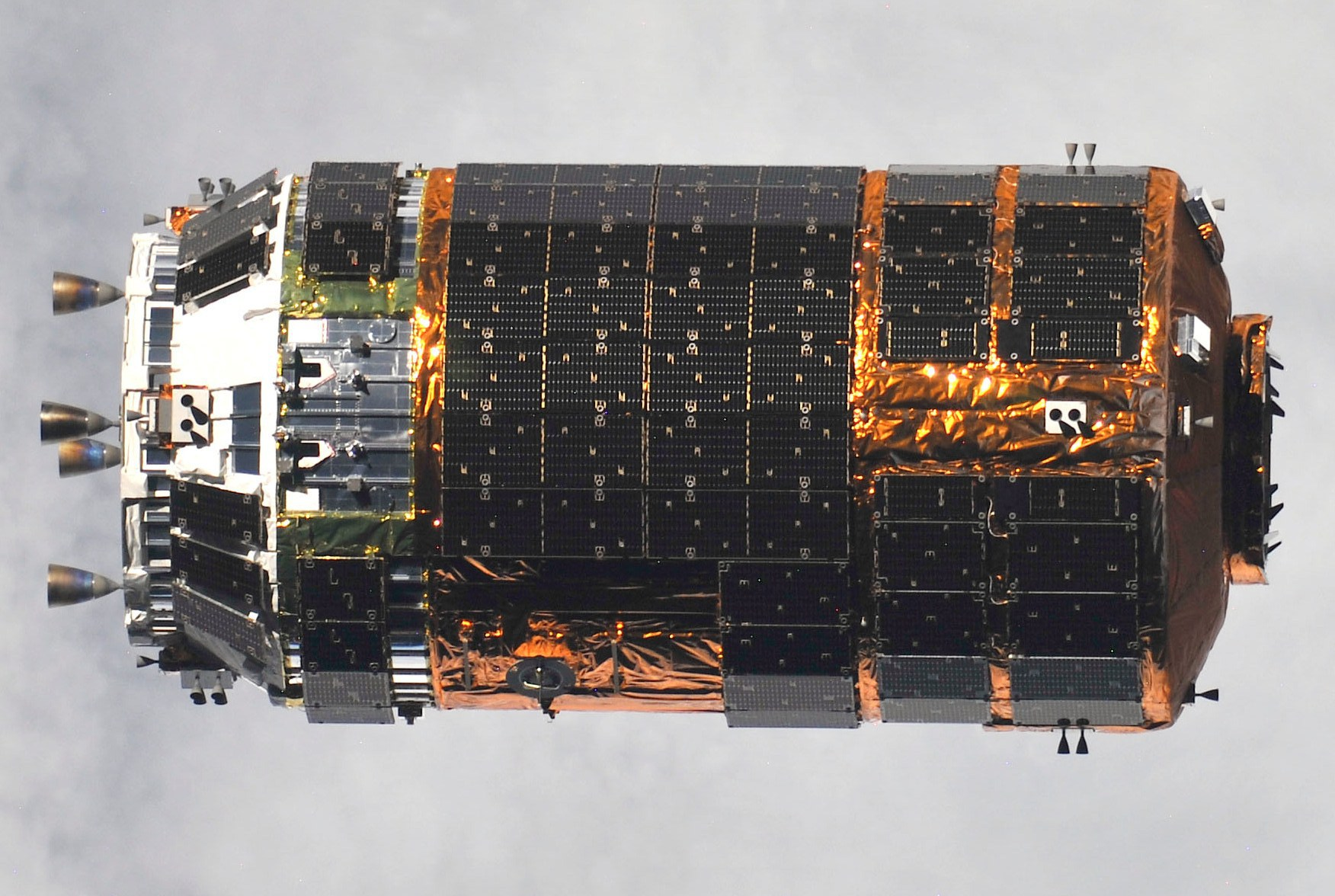 ISS020-E-041380 (17 Sept. 2009) --- Backdropped by a cloud-covered part of Earth, the unpiloted Japanese H-II Transfer Vehicle (HTV) approaches the International Space Station. Once the HTV was in range, NASA astronaut Nicole Stott, Canadian Space Agency astronaut Robert Thirsk and European Space Agency astronaut Frank De Winne, all Expedition 20 flight engineers, used the station's robotic arm to grab the cargo craft and attach it to the Earth-facing port of the Harmony node. The attachment was completed at 5:26 p.m. (CDT) on Sept. 17, 2009.